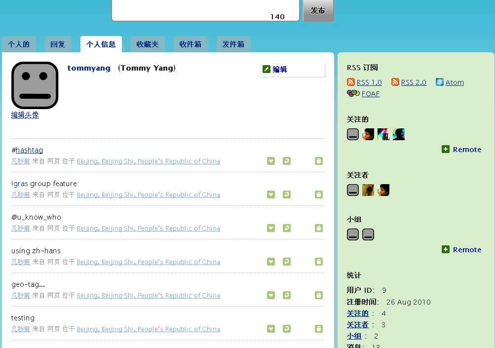 A screenshot of a website running StatusNet, a FLOSS microblogging server written in PHP.